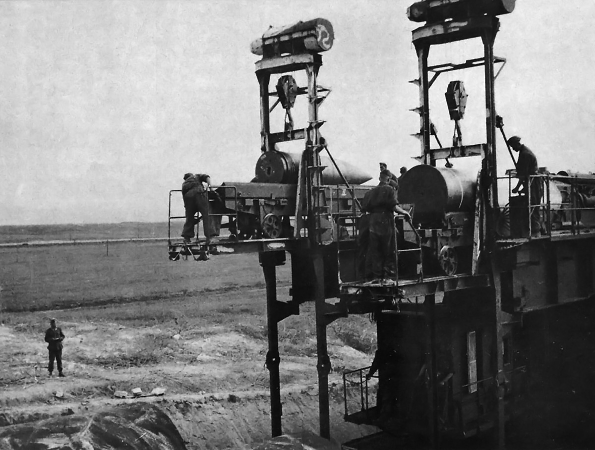 Railway gun